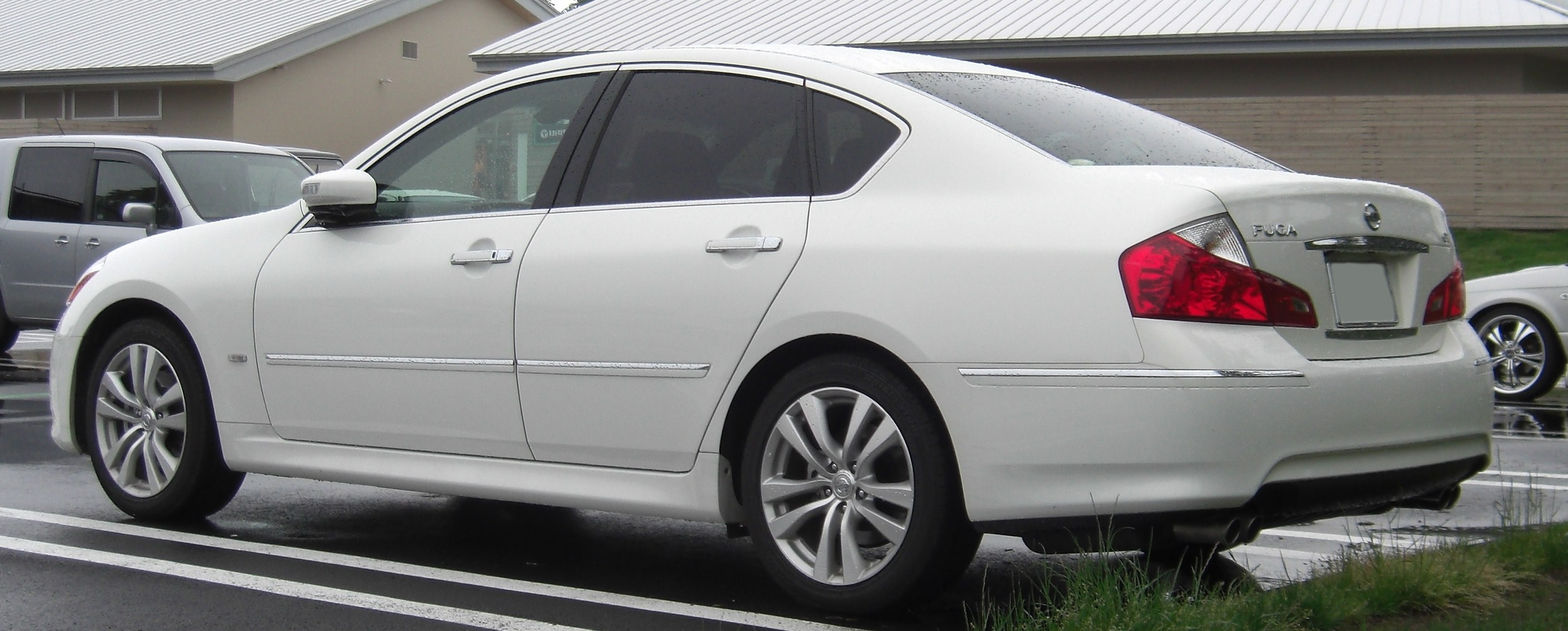 NISSAN FUGA